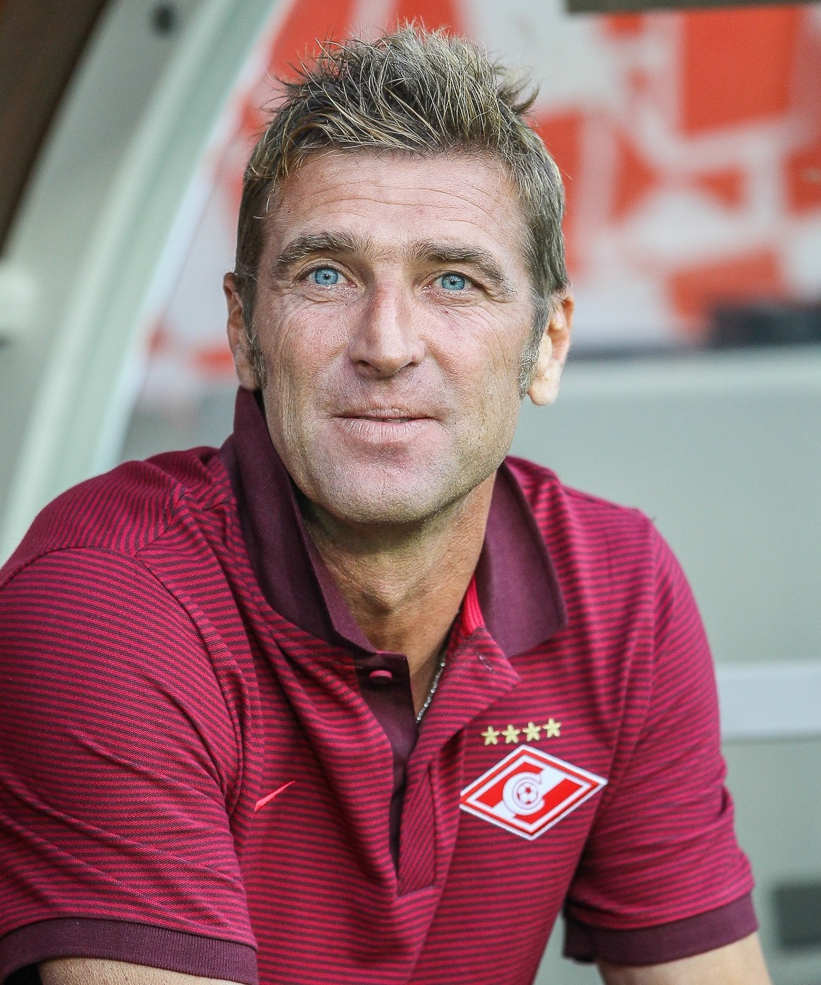 Massimo Carrera coaching Spartak Moscow against Krylia Sovetov Samara.